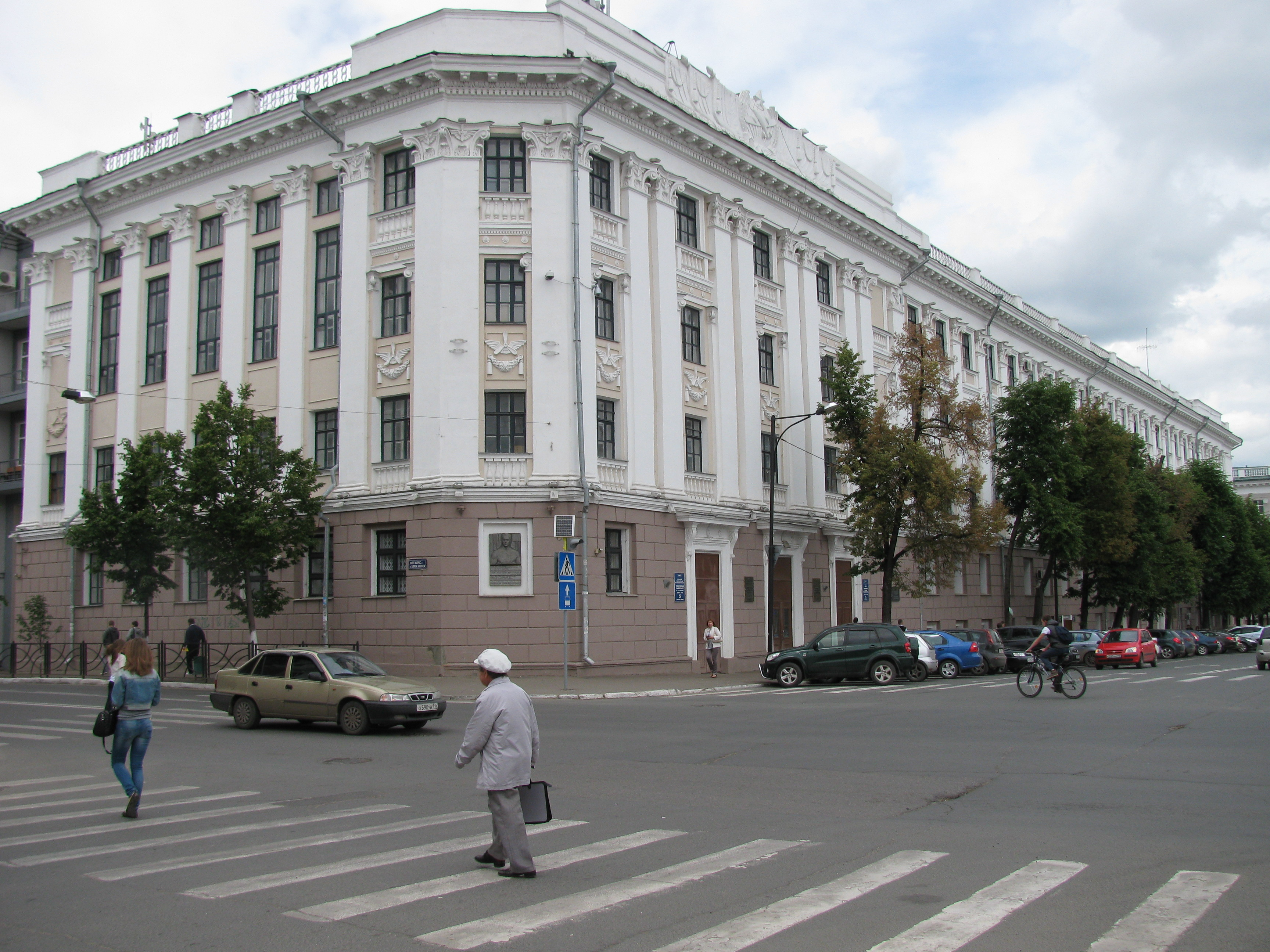 5 здание КАИ